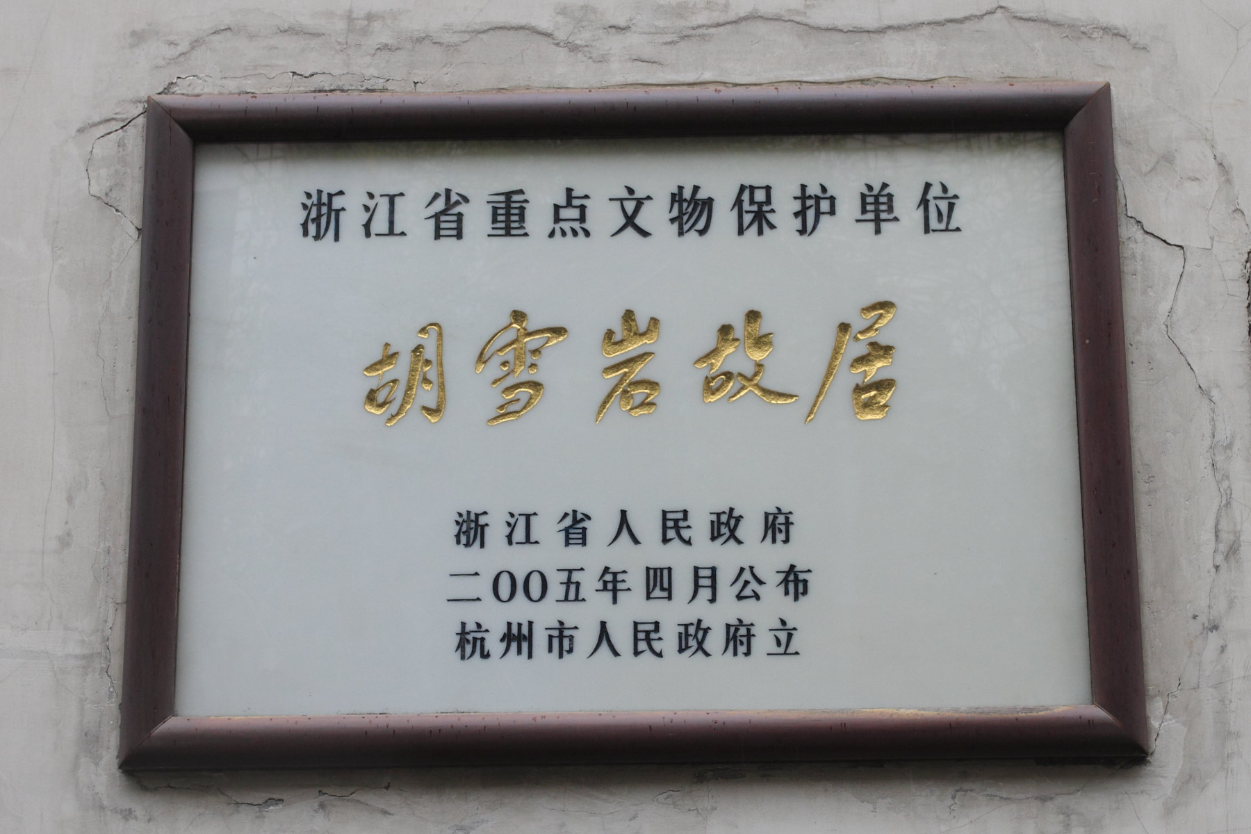 The Former Resident of Hu Xueyan